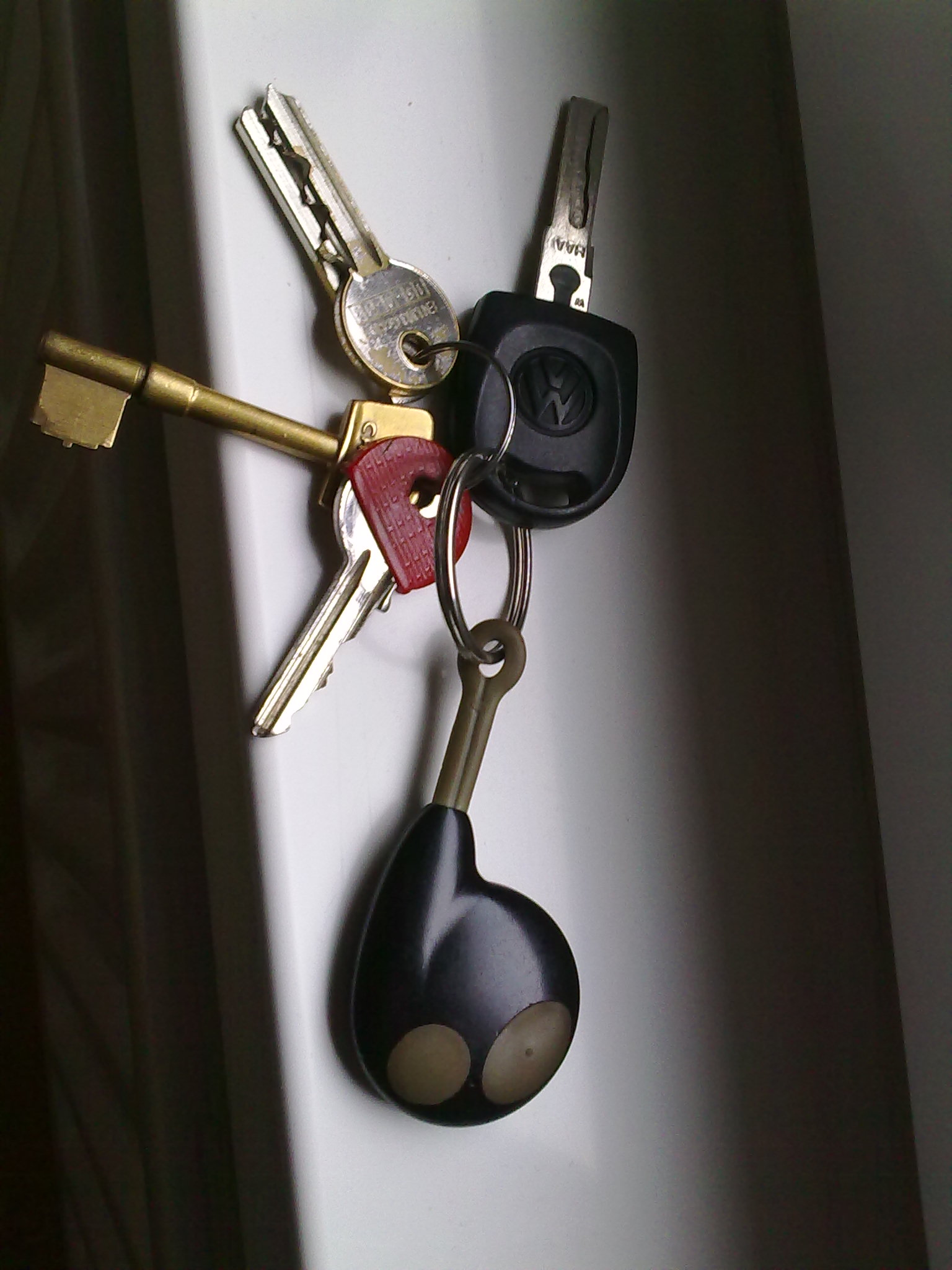 Key fob